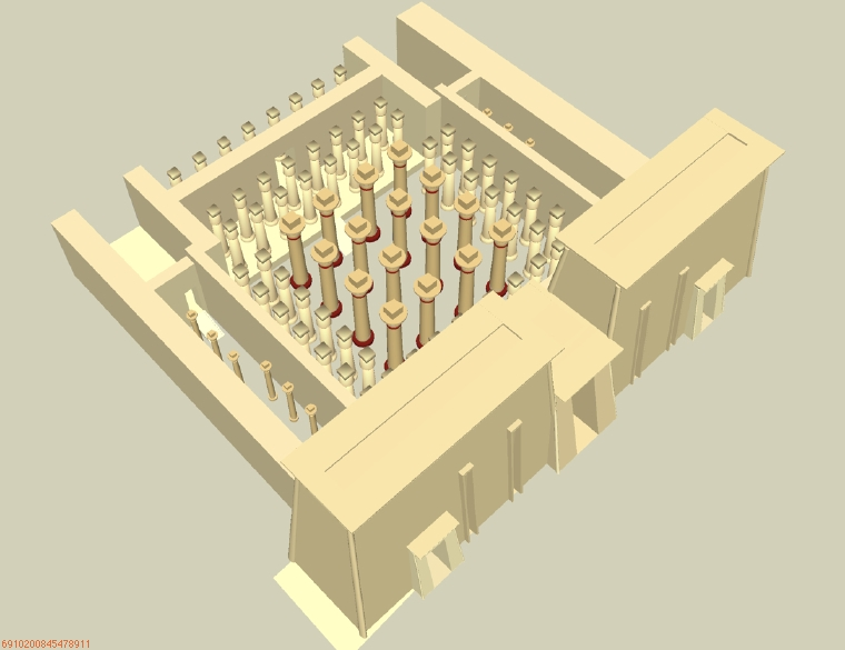 Restoration of the hypostyle hall of the great temple of Ptah at Memphis